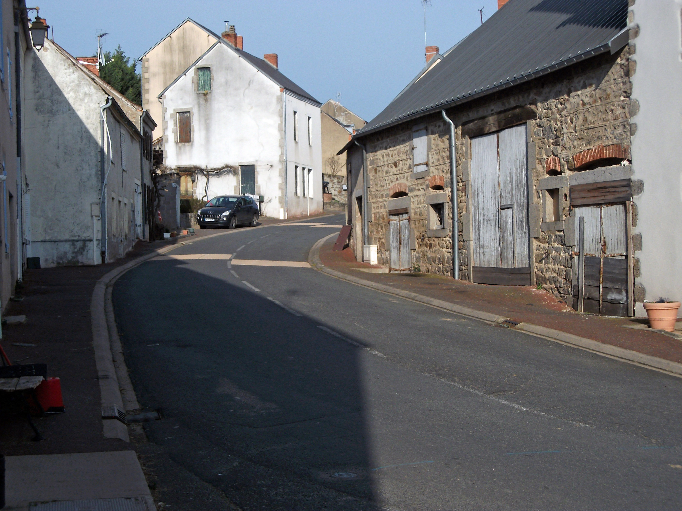 Main street (departmental road 121) in Nizerolles, Allier [10404]